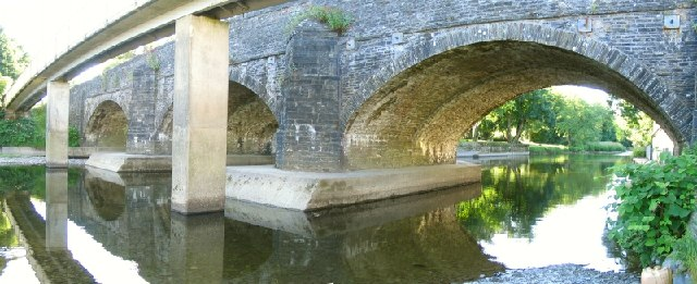 Bridges over the Cothi river at Pontargothi. The road and pedestrian bridges cross the river together.